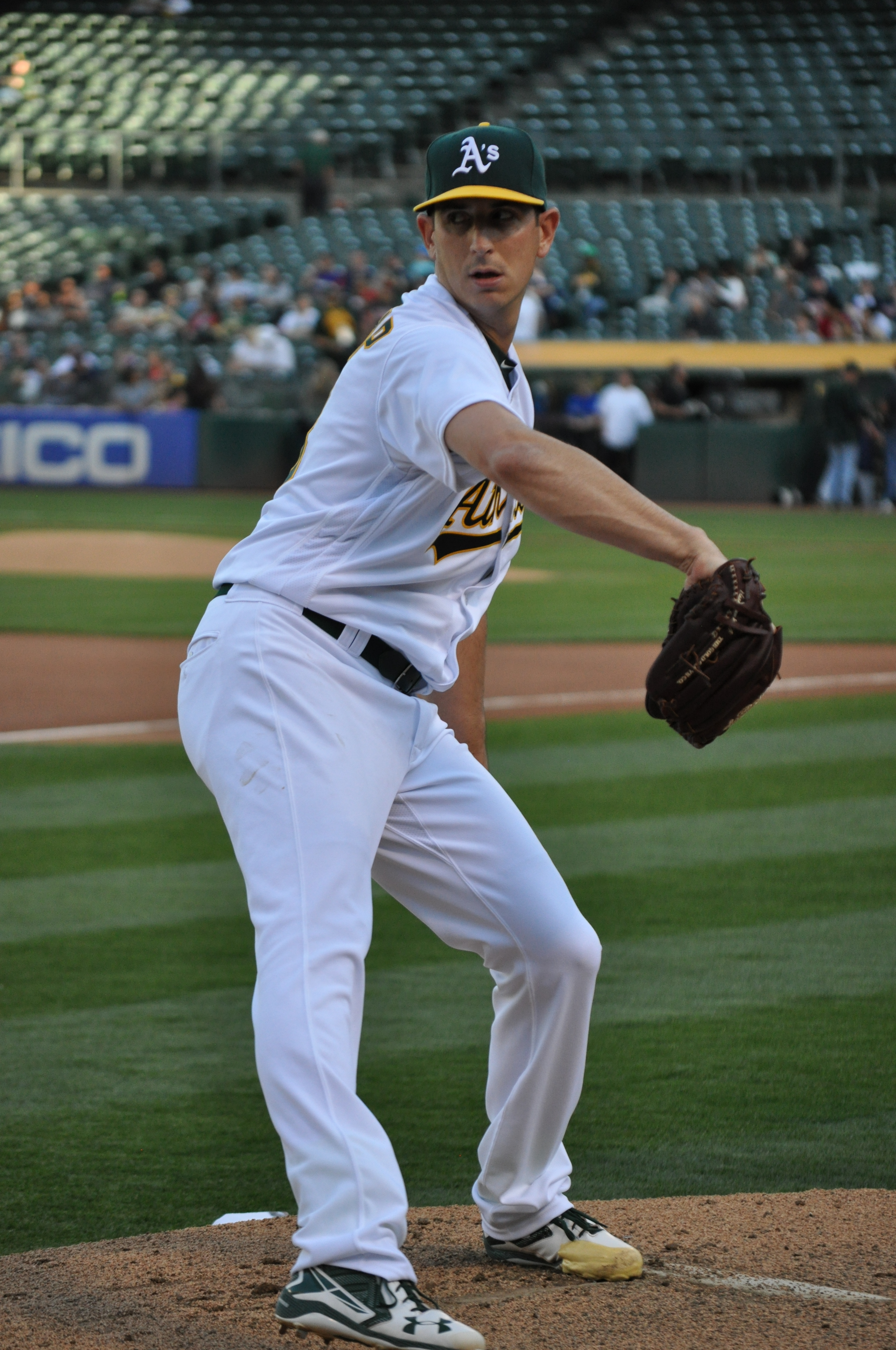 Surkamp warms up on 5-31-16